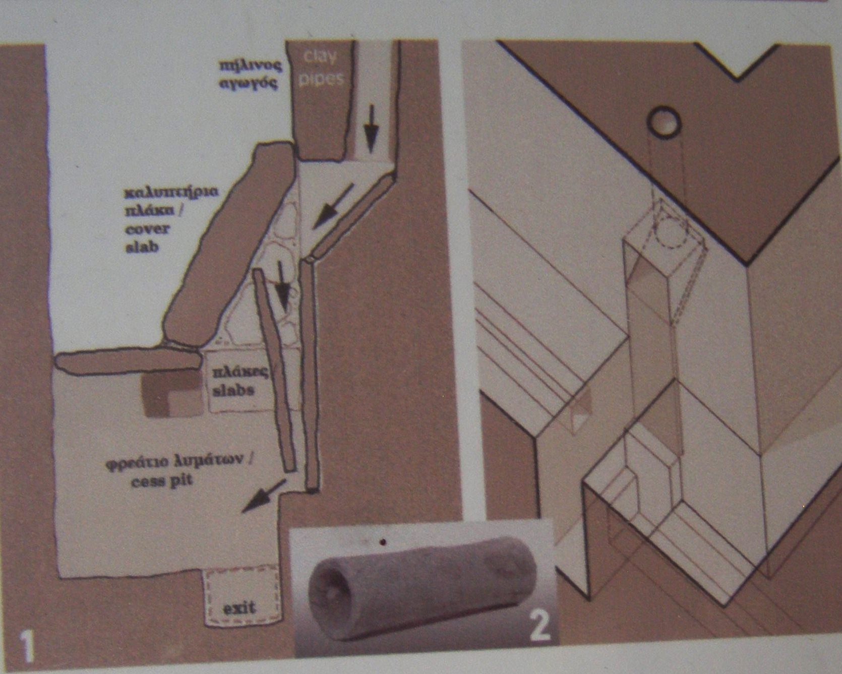 Náčrtek odvodu vody z koupelny v patře.